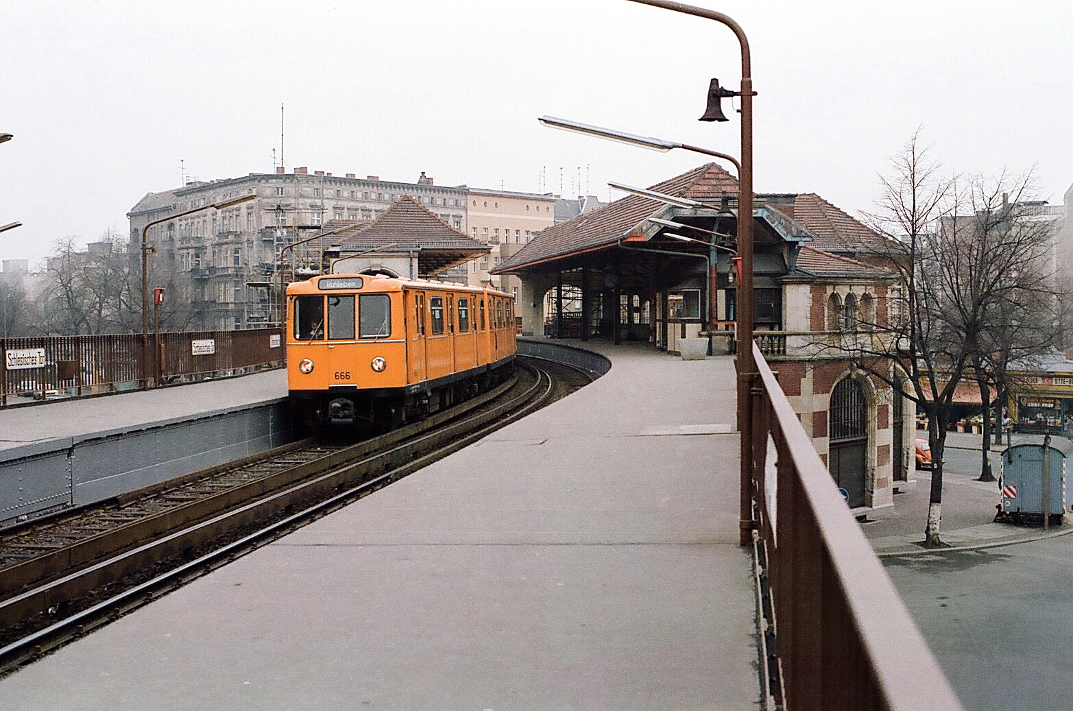 Berlin U Bahn station Schlesisches Tor in March 1984. The U-Bahn train number 666 is a type A3L series 71.